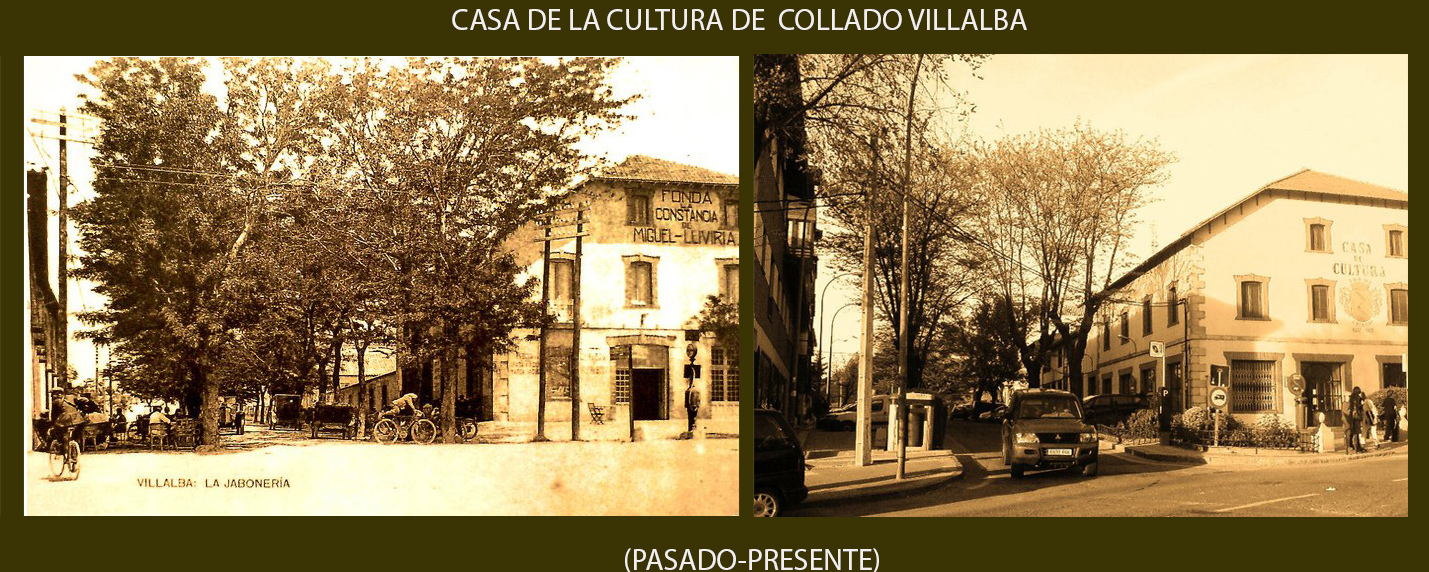 CASA DE LA CULTURA DE COLLADO VILLALBA